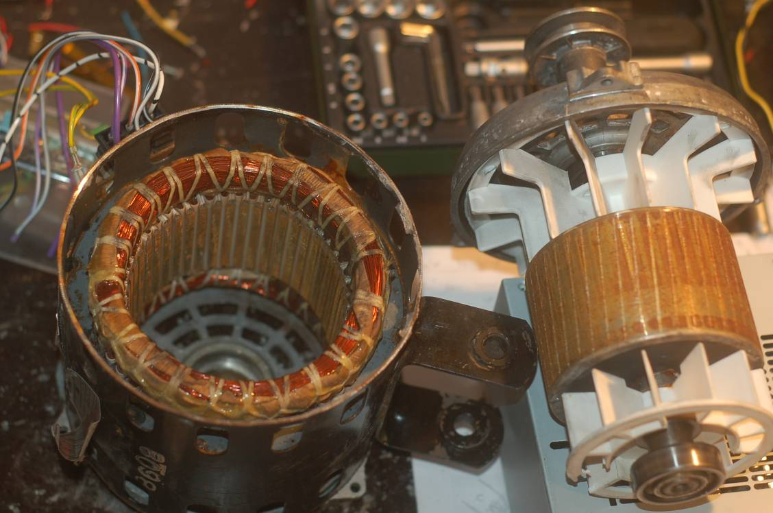 Induction motor from a washing machine